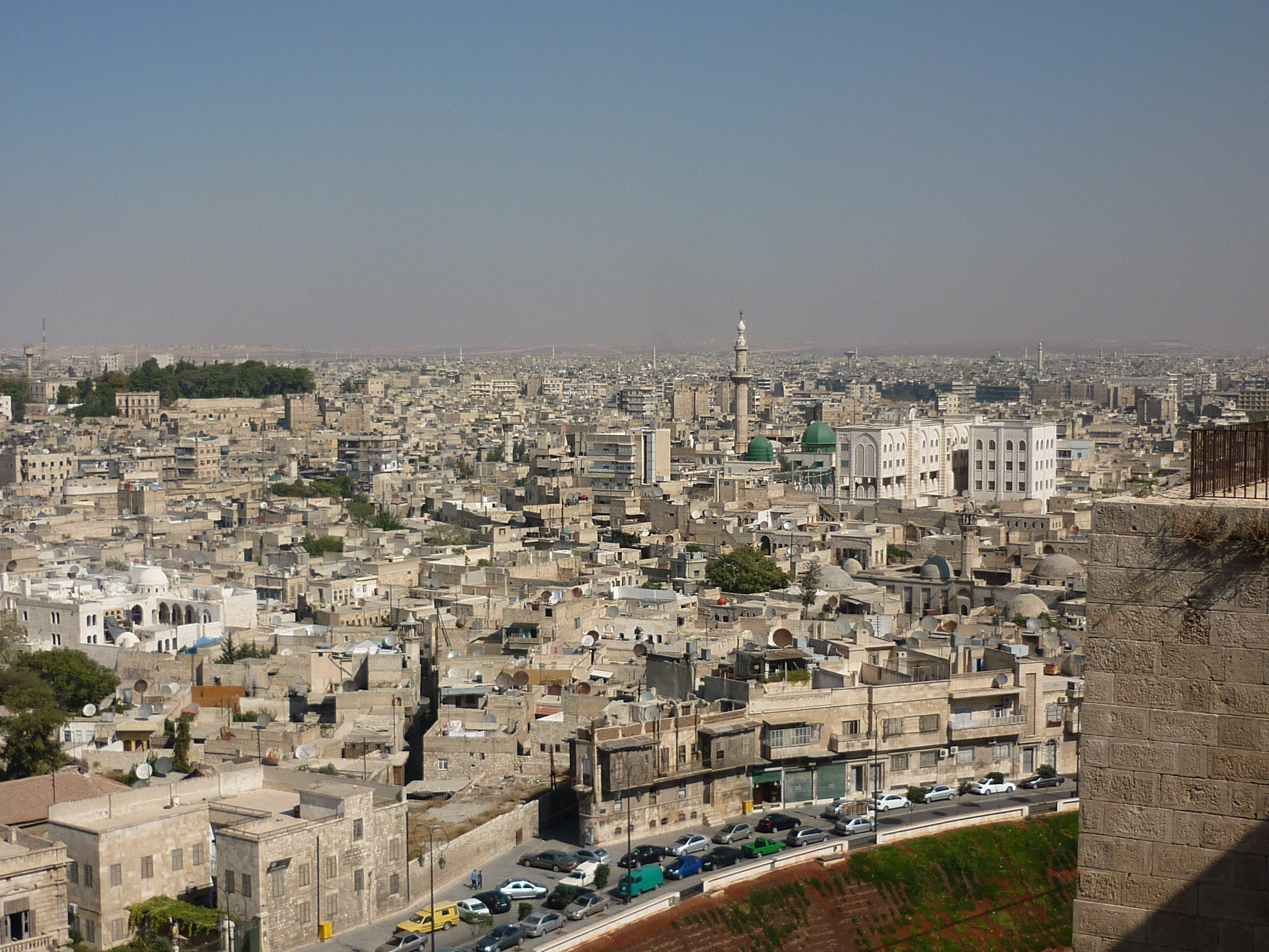 View of Aleppo